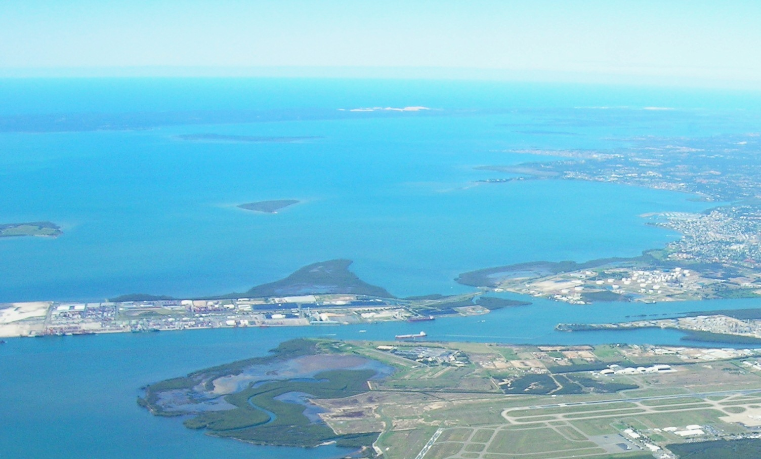 View of Port of Brisbane and southern Moreton Bay